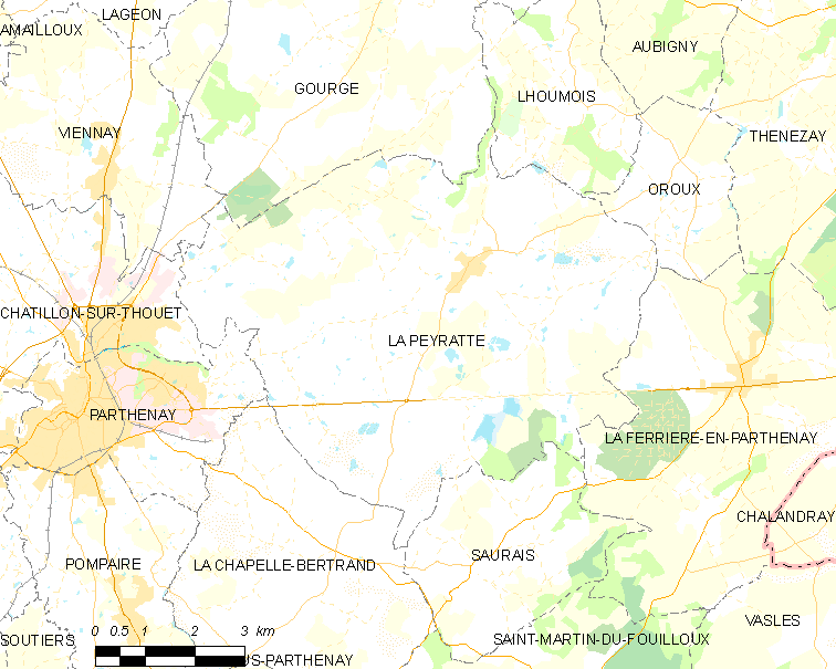 Map of French municipality La Peyratte